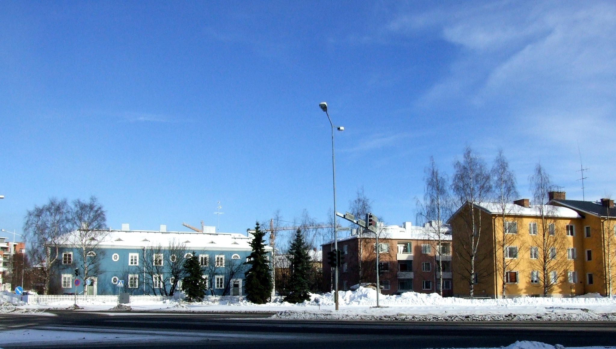 Leveri neighbourhood in Oulu, Finland